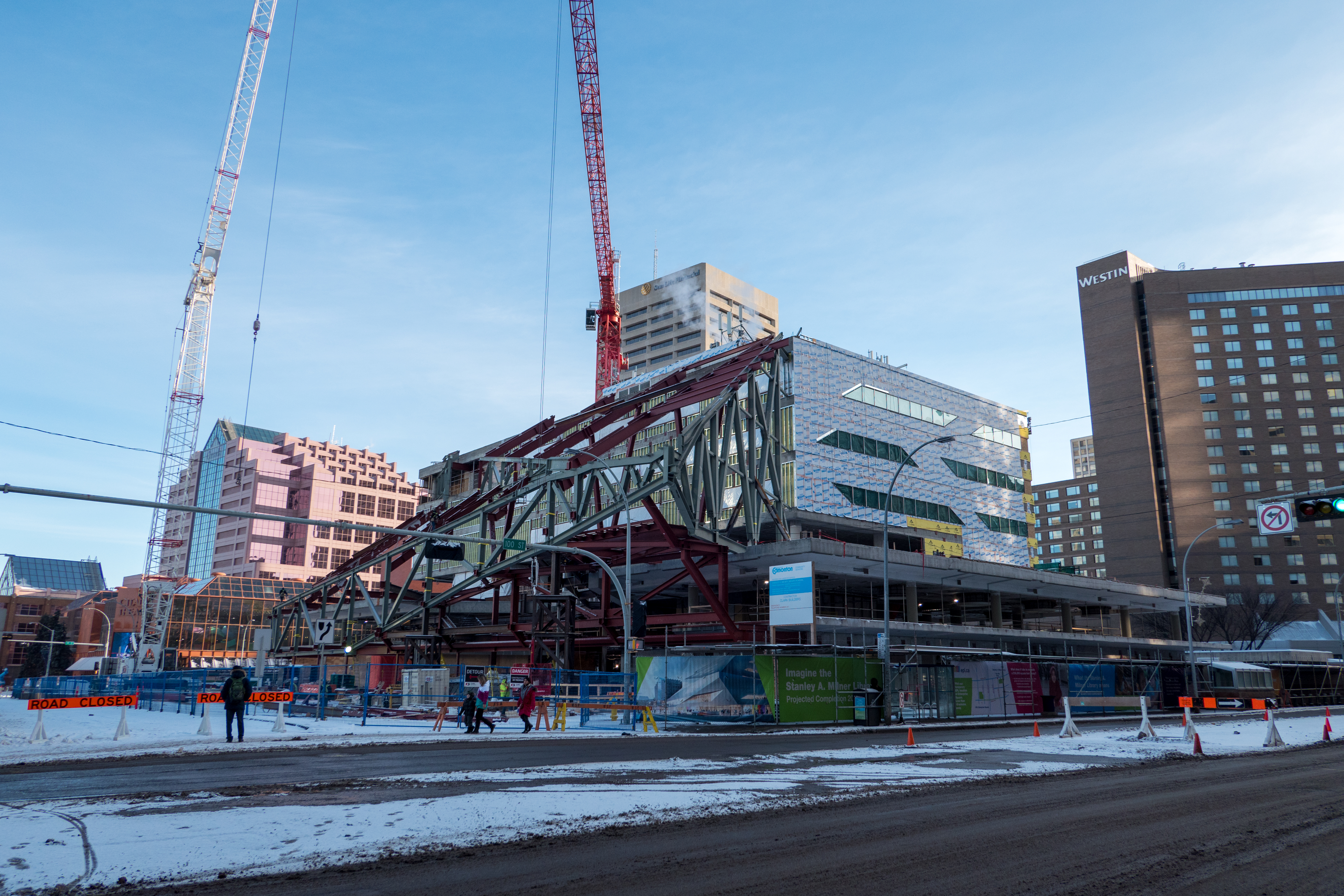 Stanley A. Milner Library in Downtown Edmonton under construction in January 2018